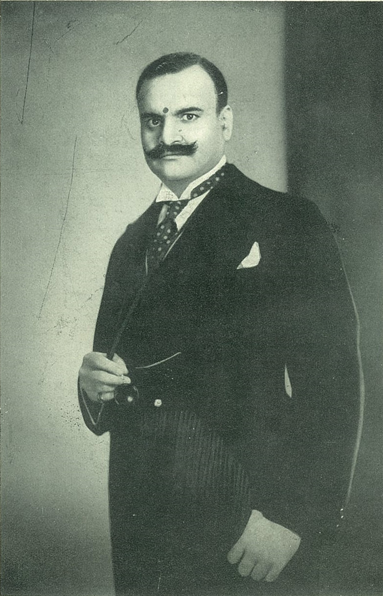 Chandrojirao Angre, AKA Dharmaveer Angre. Complete title: Col. Shrimant Sardar Dharmaveer Chandrojirao Sambhajirao Angre, Vajarat Moab, Sawai Sarkhel Bahadur